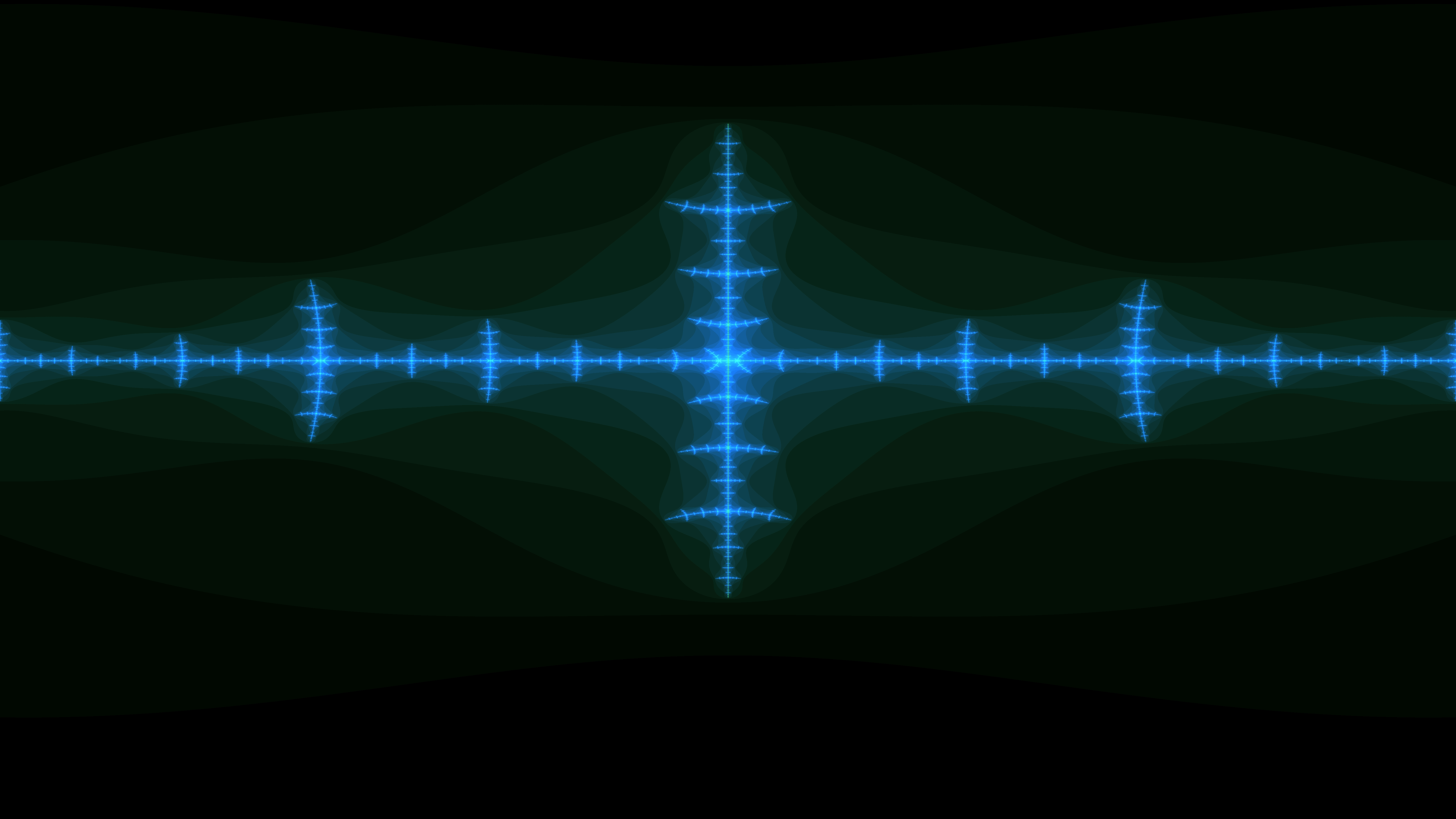 Fractal Julia made with The Gimp